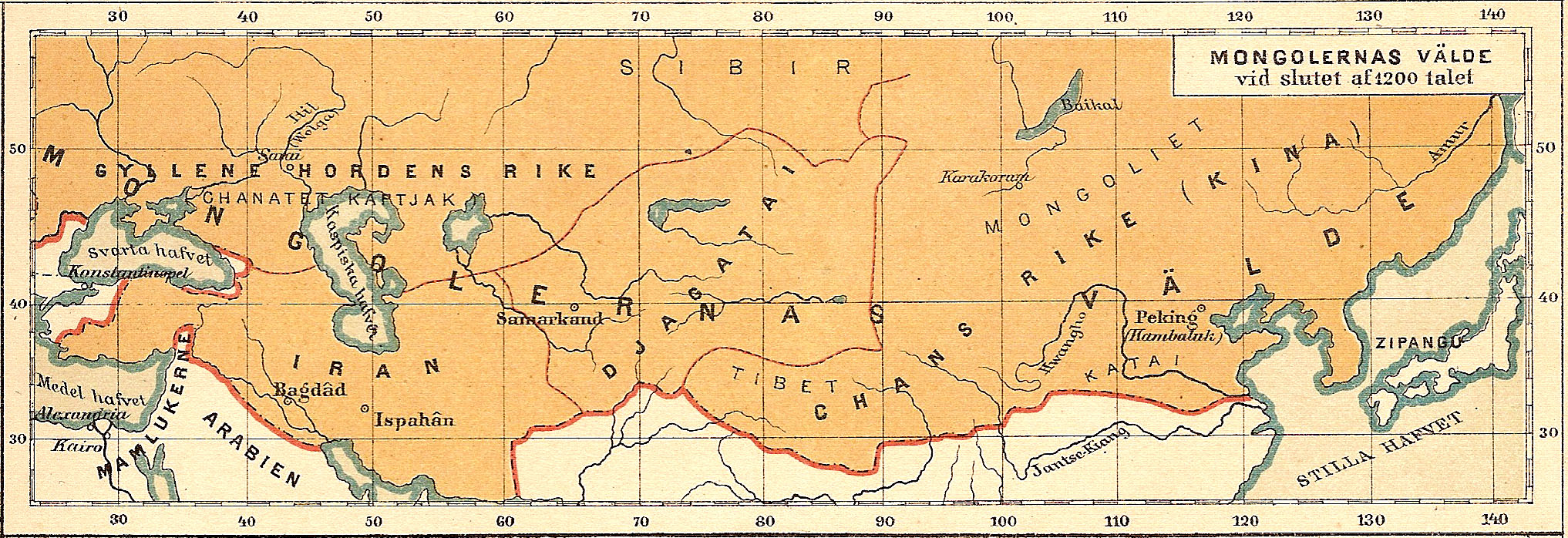 Historic map (swedish) of the mongolian area in the late 1300th century.